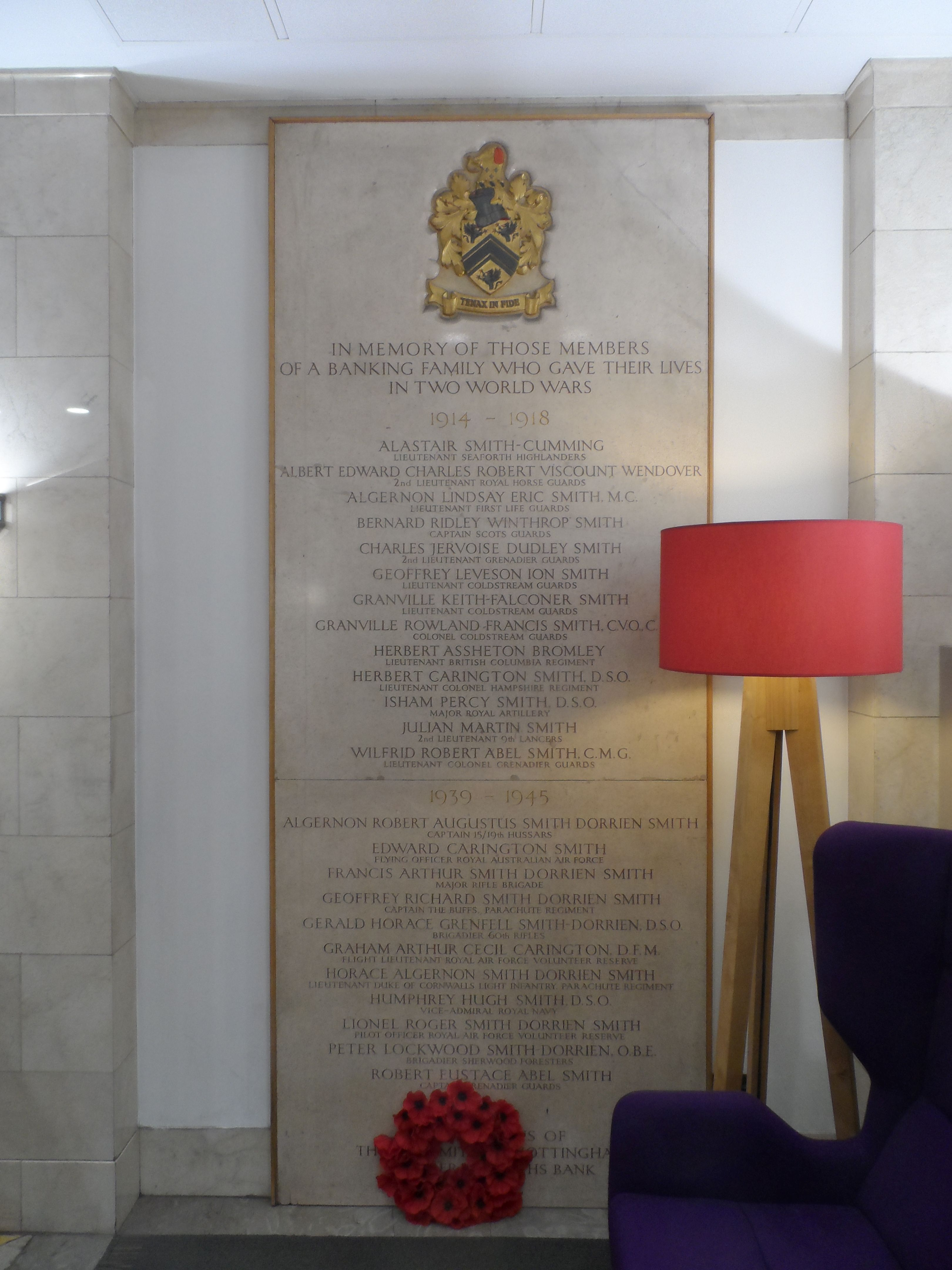 Smiths' banking family war memorial. Displayed at NatWest branch on Prince's Street, London, UK.